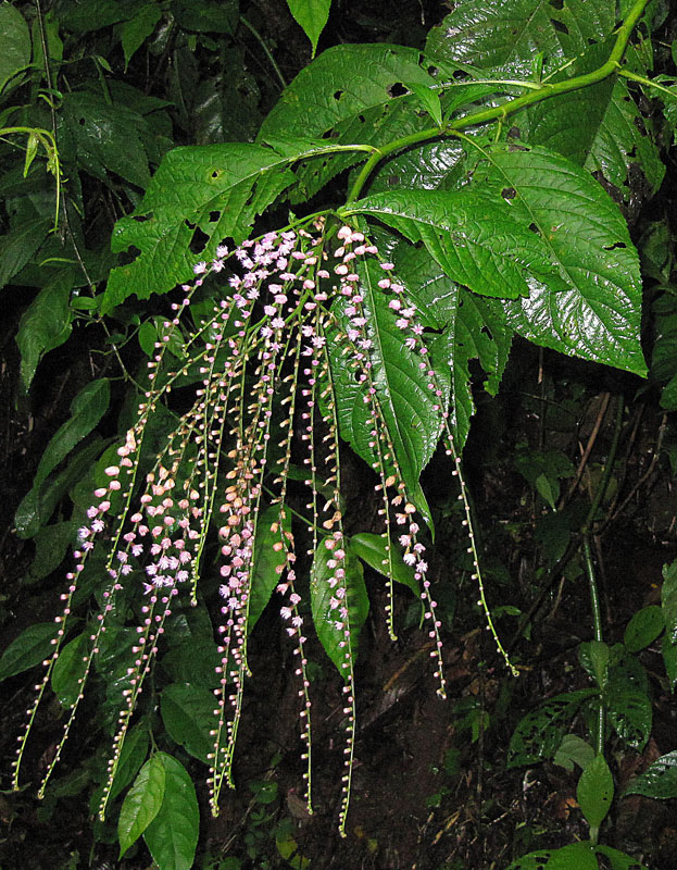 A tendril-trailing shrub near Lago Arenal, Costa Rica. In context at